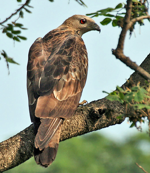 Oriental Honey-buzzard Pernis ptilorhyncus in Kolkata, West Bengal, India.